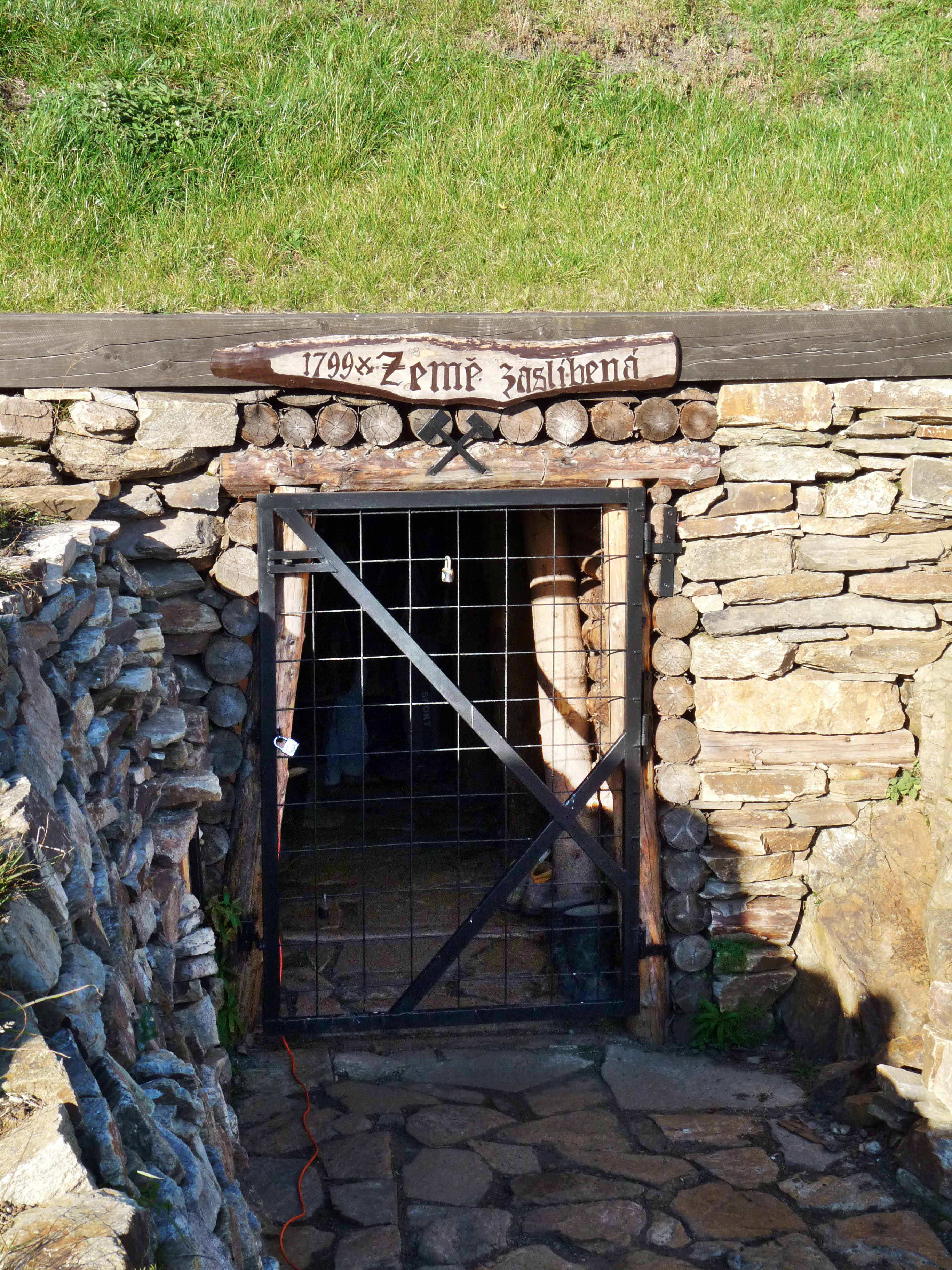 Entrance to the adit Země zaslíbená on Mědník Hill in the Chomutov District, Ústí nad Labem Region, Czech Republic.